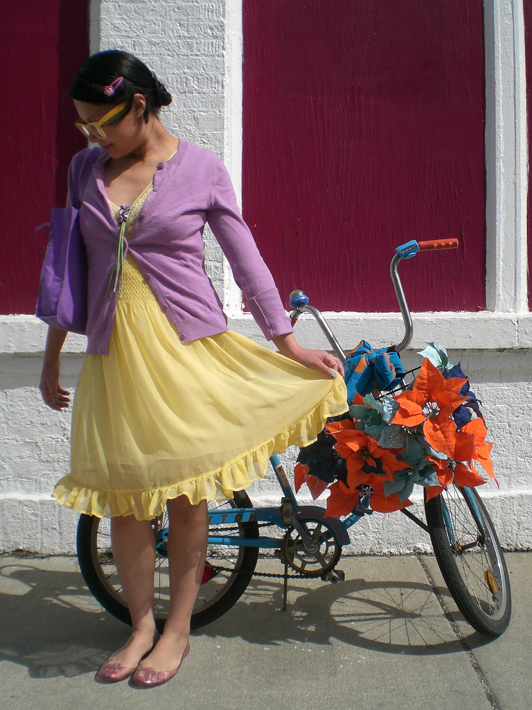 Yellow Betsey Johnson dress, 2006